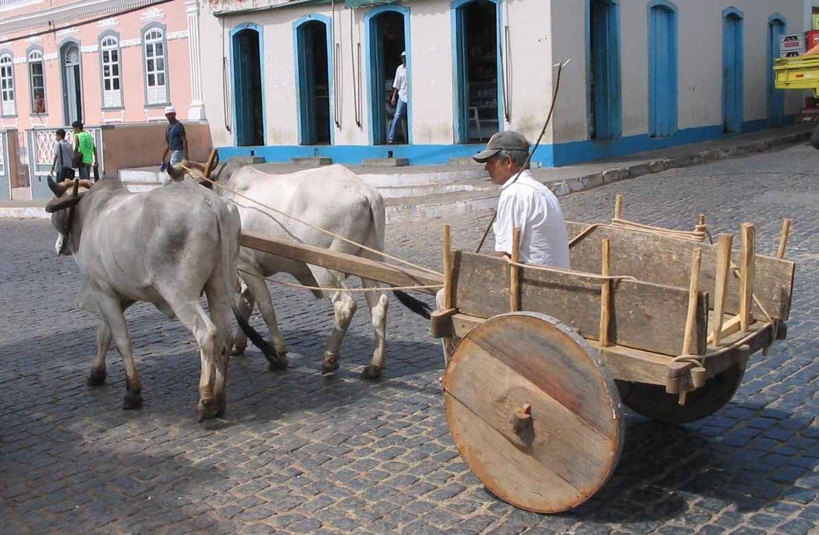 I don't do art for a living, neither for personal nor professional propaganda. I don't make any drawings for money. Thanks.